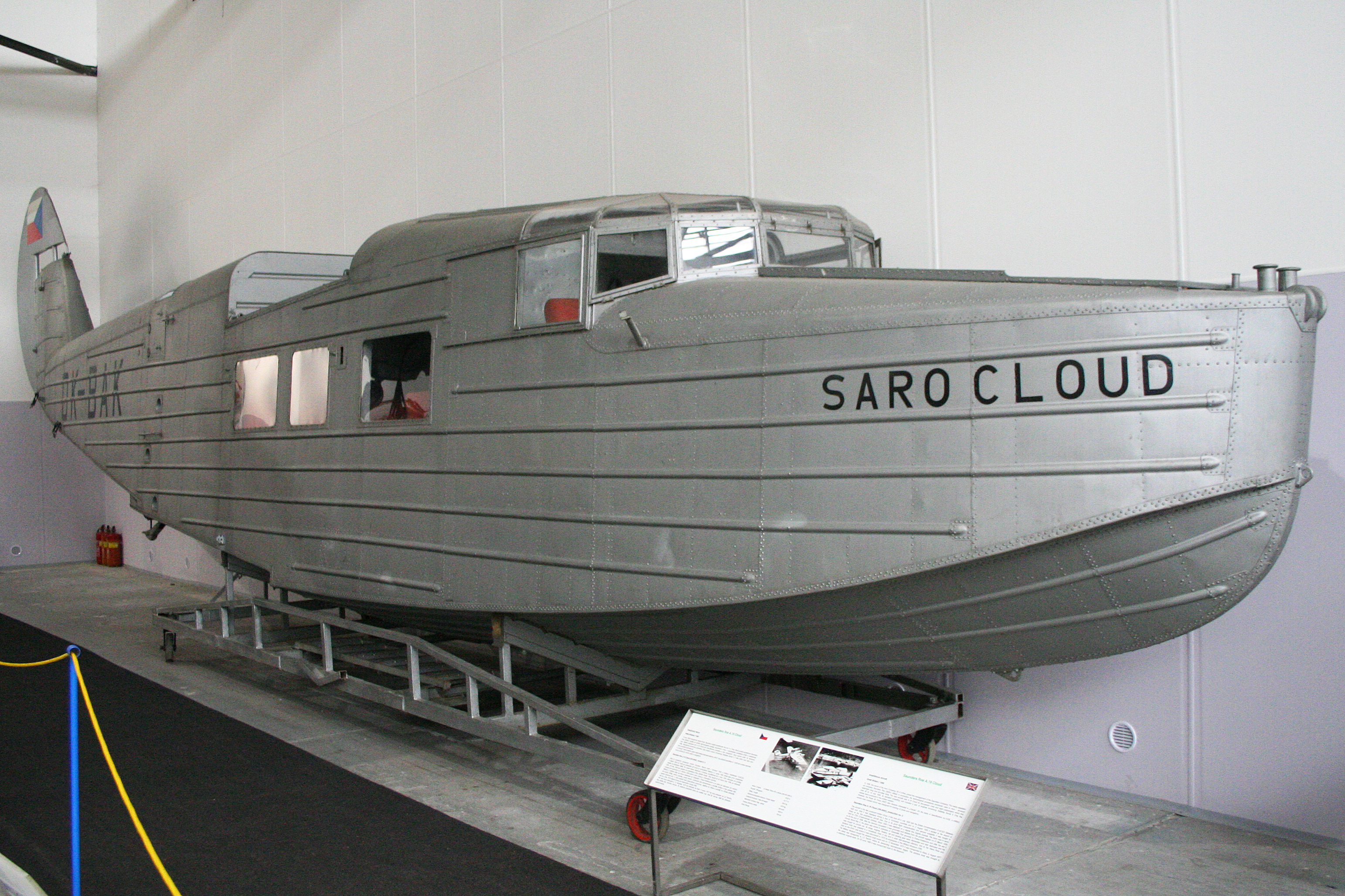 Originally 'G-ACGO' and now a very rare example of a British inter-war flying boat. msn A.19/5. On display in the Post War hangar, Kbely museum, Czech Republic. 07-10-2012